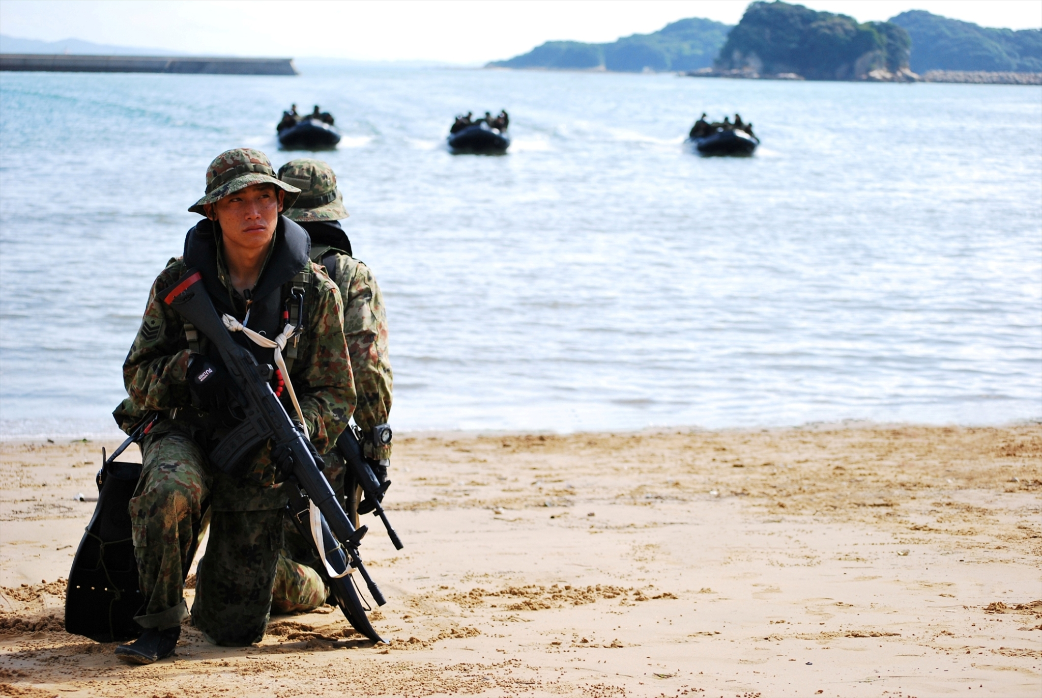 Title WAi-NS-3 (遊泳・上級上陸訓練)_R.JPG Album 教育訓練等 遊泳・上級上陸訓練